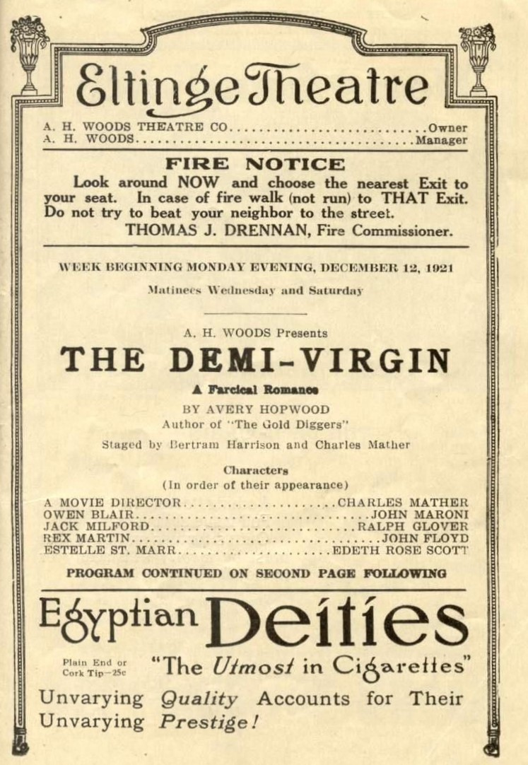 Inside page from the December 12, 1921 program for The Demi-Virgin.